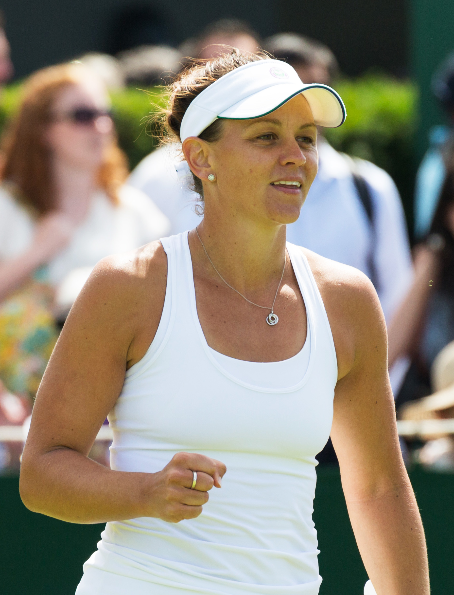 Casey Dellacqua competing in the first round of the 2015 Wimbledon Championships in the doubles with partner Yaroslava Shvedova.